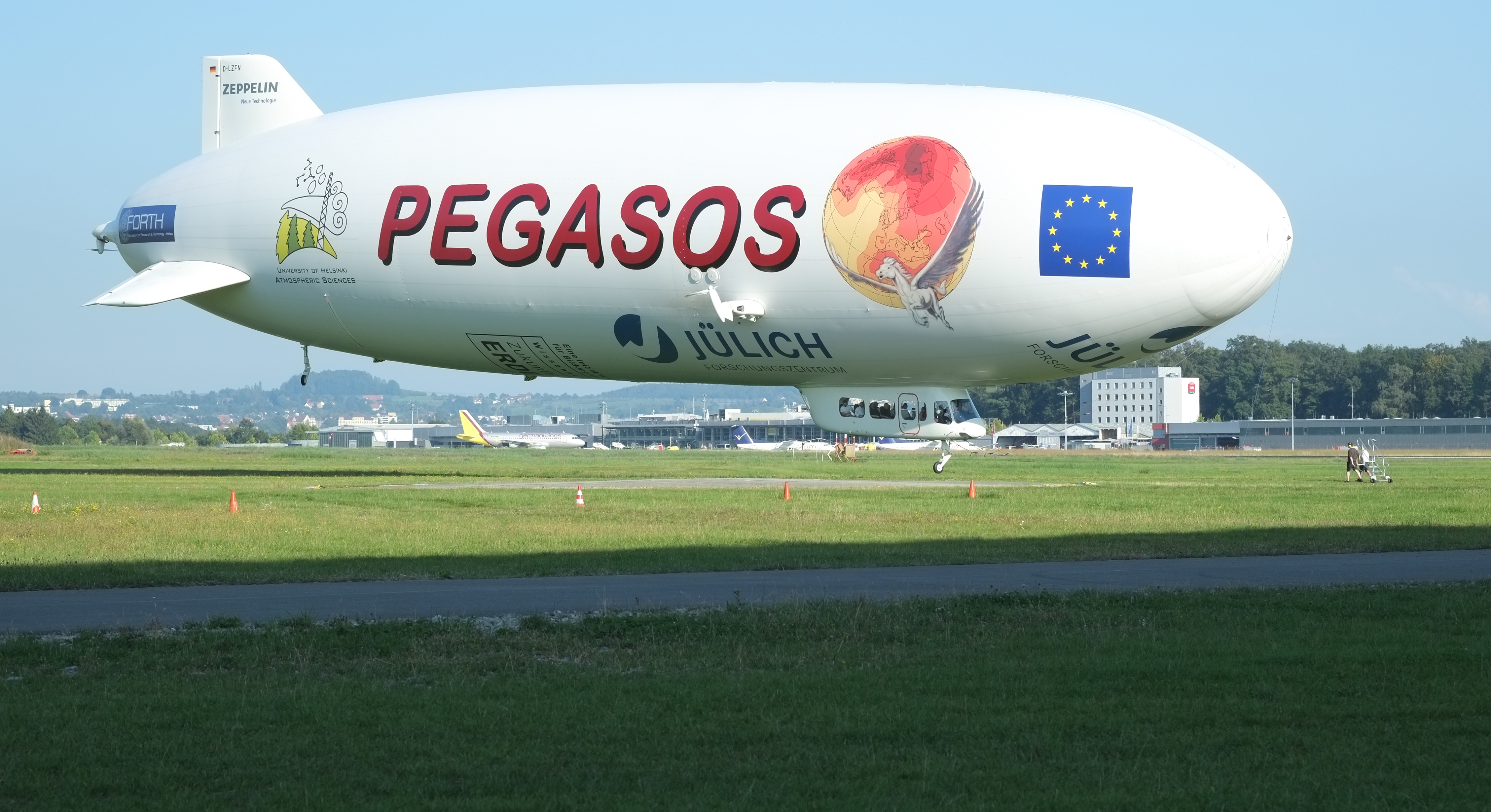 Aircraft D-LZFN Friedrichshafen, a Zeppelin NT, landing in Friedrichshafen, county Bodenseekreis, Germany